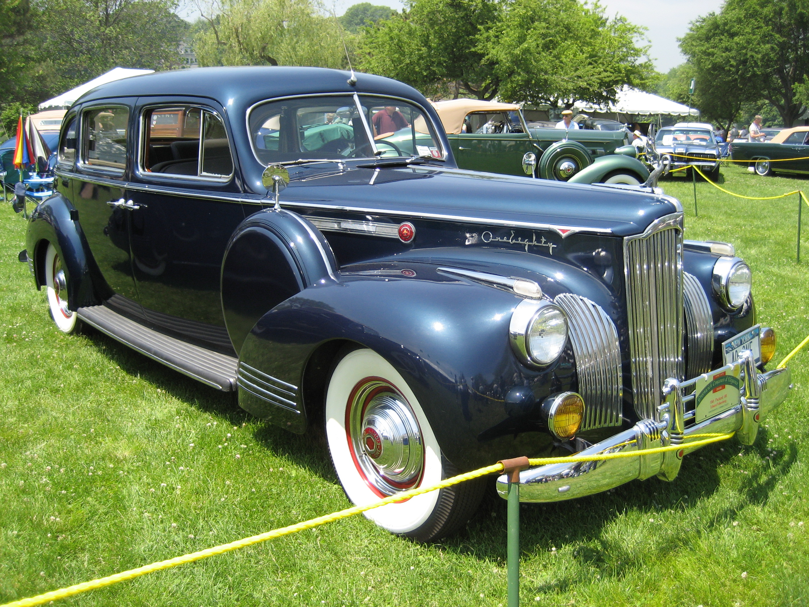 1941 Packard 180 Touring Sedan photographed at the 2008 Greenwich Concours d'Elegance in Greenwich, Connecticut.